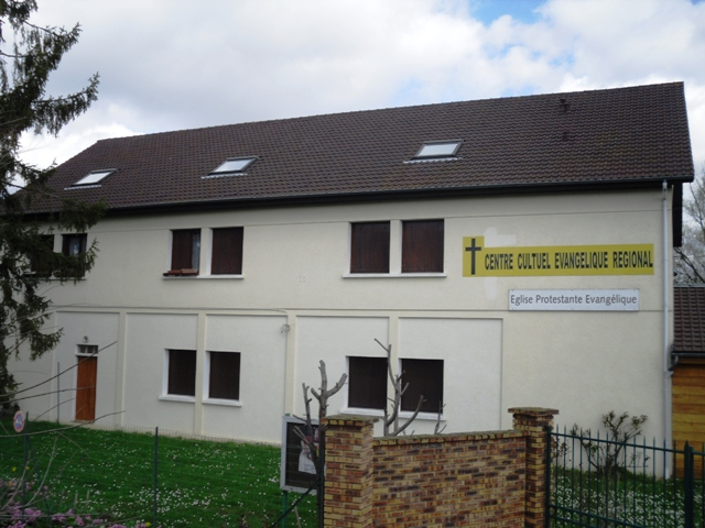 The lutheran temple in Longjumeau, quarter Gravigny-Balizy, Essonne, France